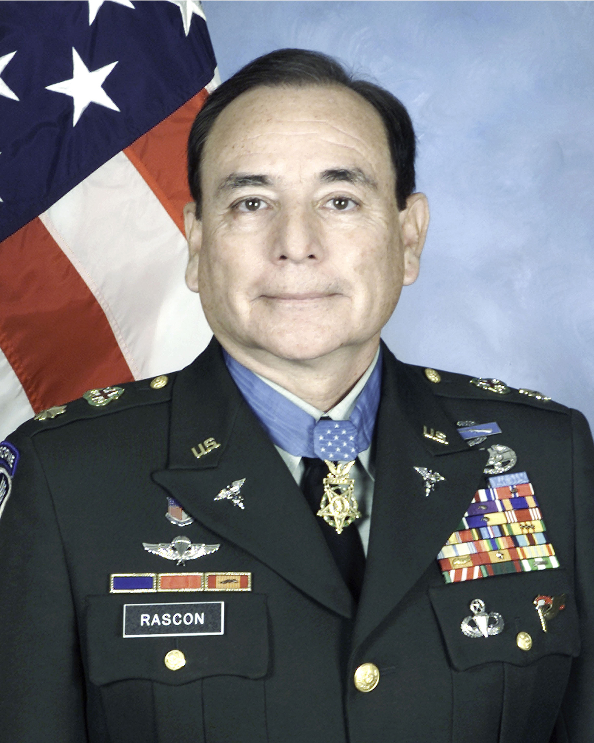 Rascon as a Major, Medical Service Corps